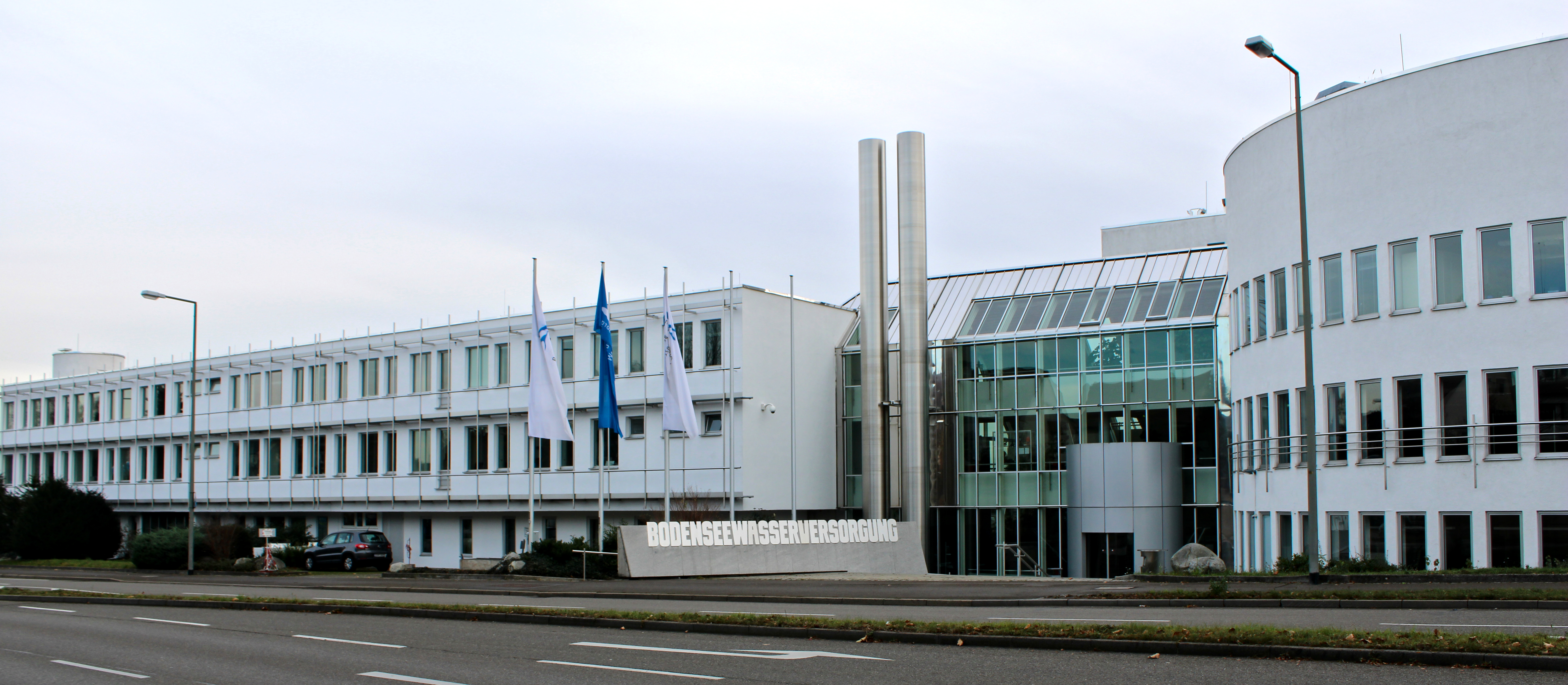 Bodensee-Wasserversorgung Headquarter